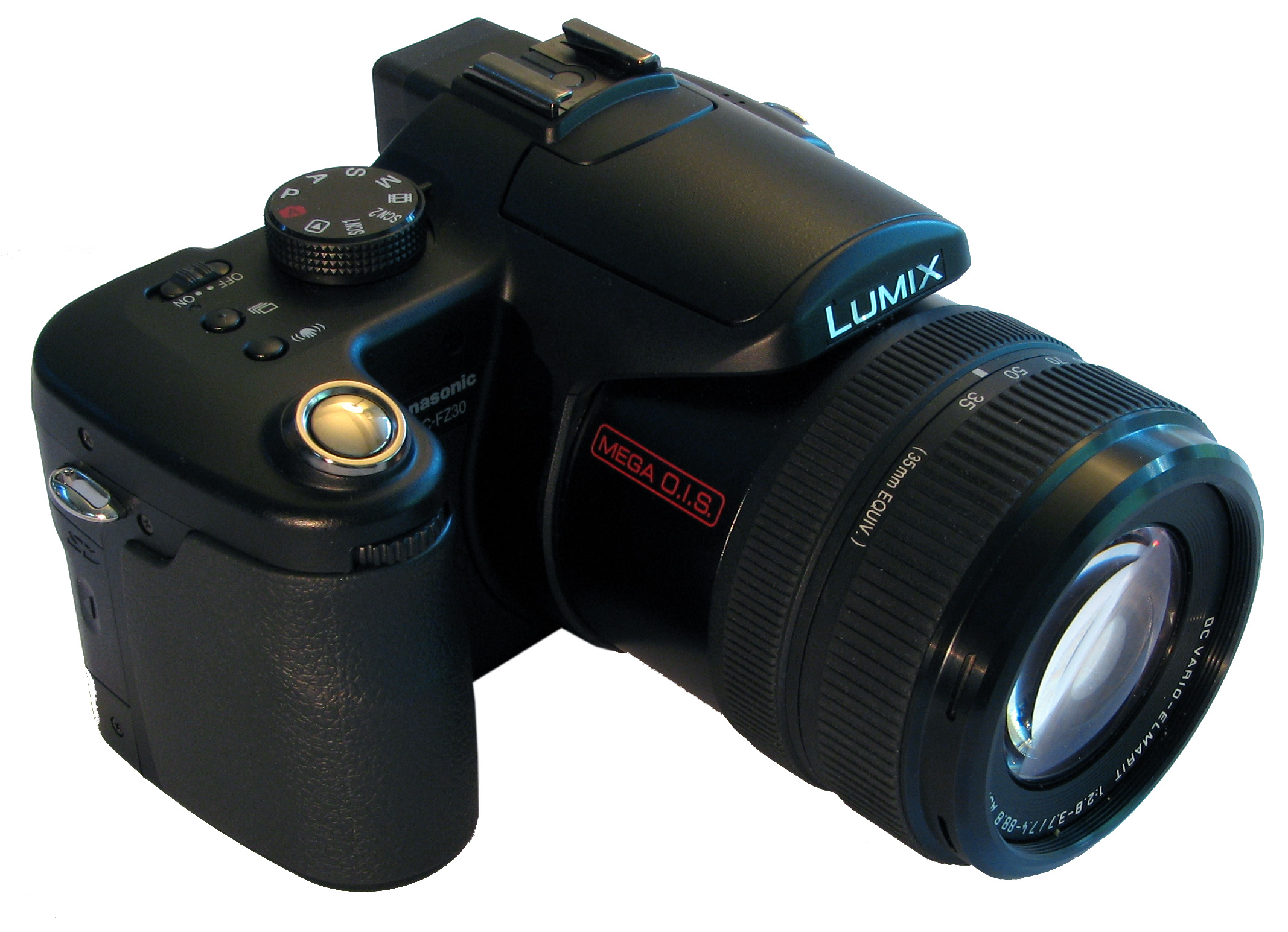 Panasonic Lumix DMC-FZ30 digital camera